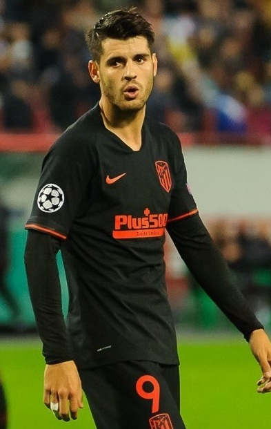 Álvaro Morata with Atlético Madrid in a Champions League game against FC Lokomotiv Moscow.